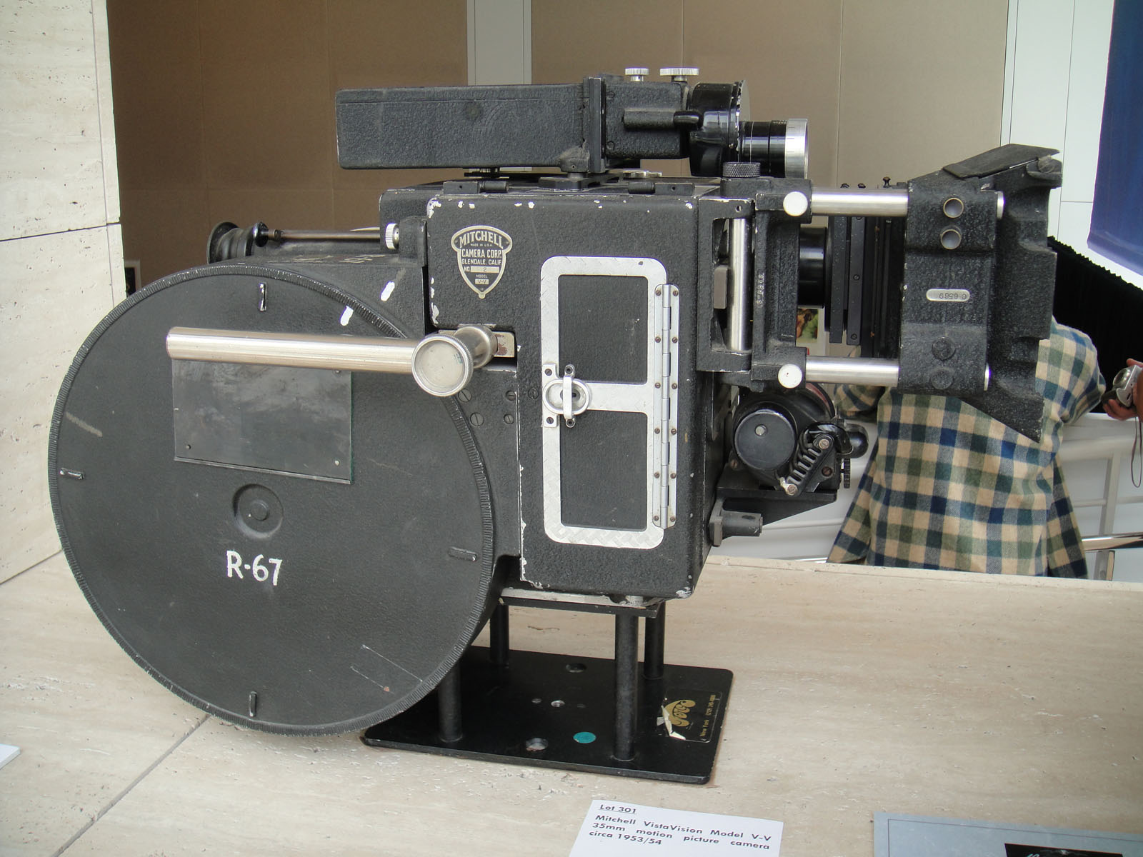 Mitchell VistaVision Model V-V 35mm motion picture camera circa 1953/54 at the Debbie Reynolds Auction Breaks Up Historic Hollywood Collection (The Paley Center for Media in Beverly Hills, Los Angeles, CA, USA).